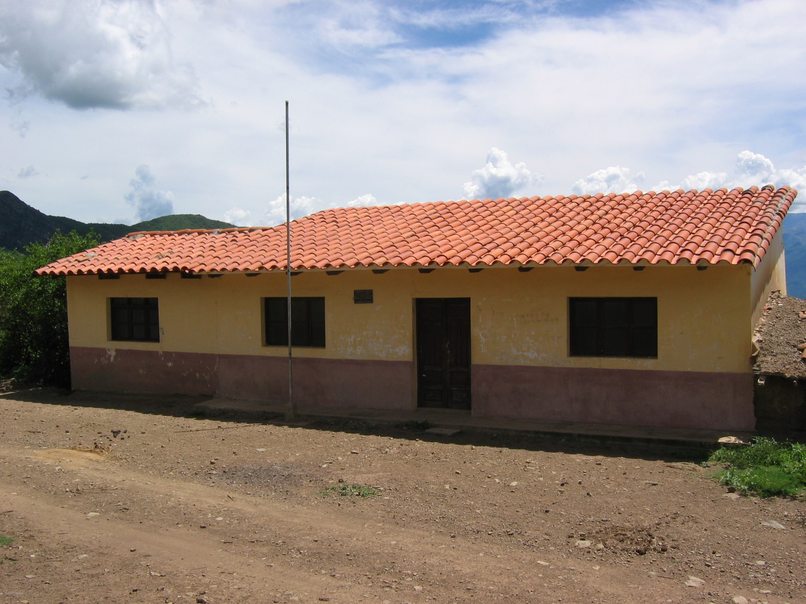 Current photo of the school where Che Guevara was shot, now a museum about him.